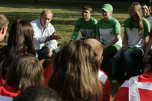 ZAVIDOVO, TVER REGION. Meeting with members of Russian youth organisations.